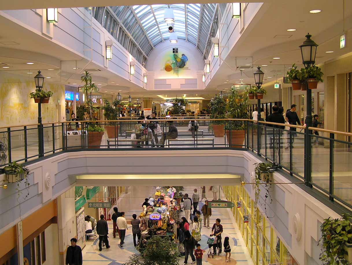 Corridor of Aeon Mall Kurashiki